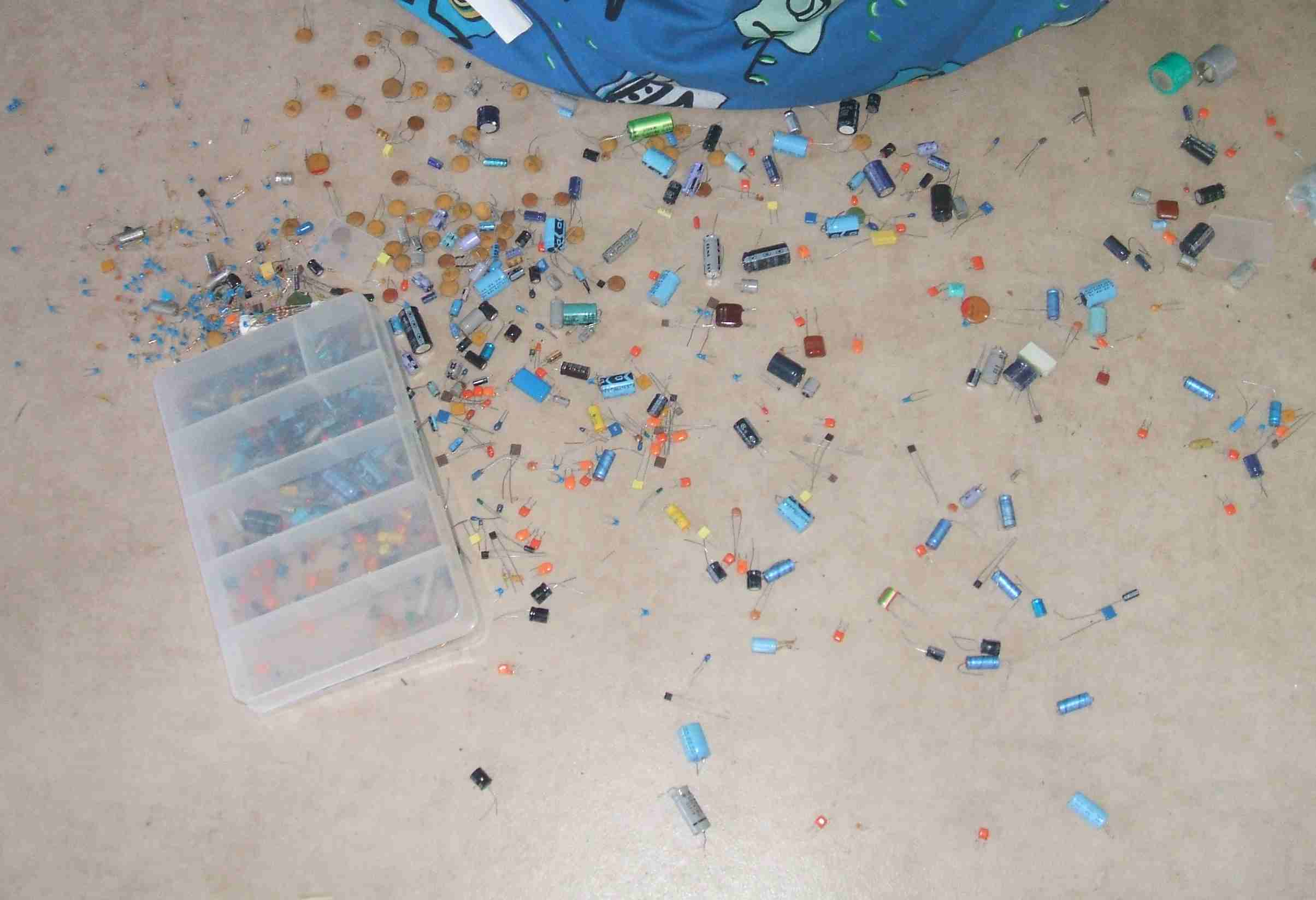 Spontaneous increase in disorder of a carefully arranged system. An irreversible process, except with the input of energy.